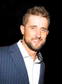 Picture of Austin Eubanks from September of 2010.